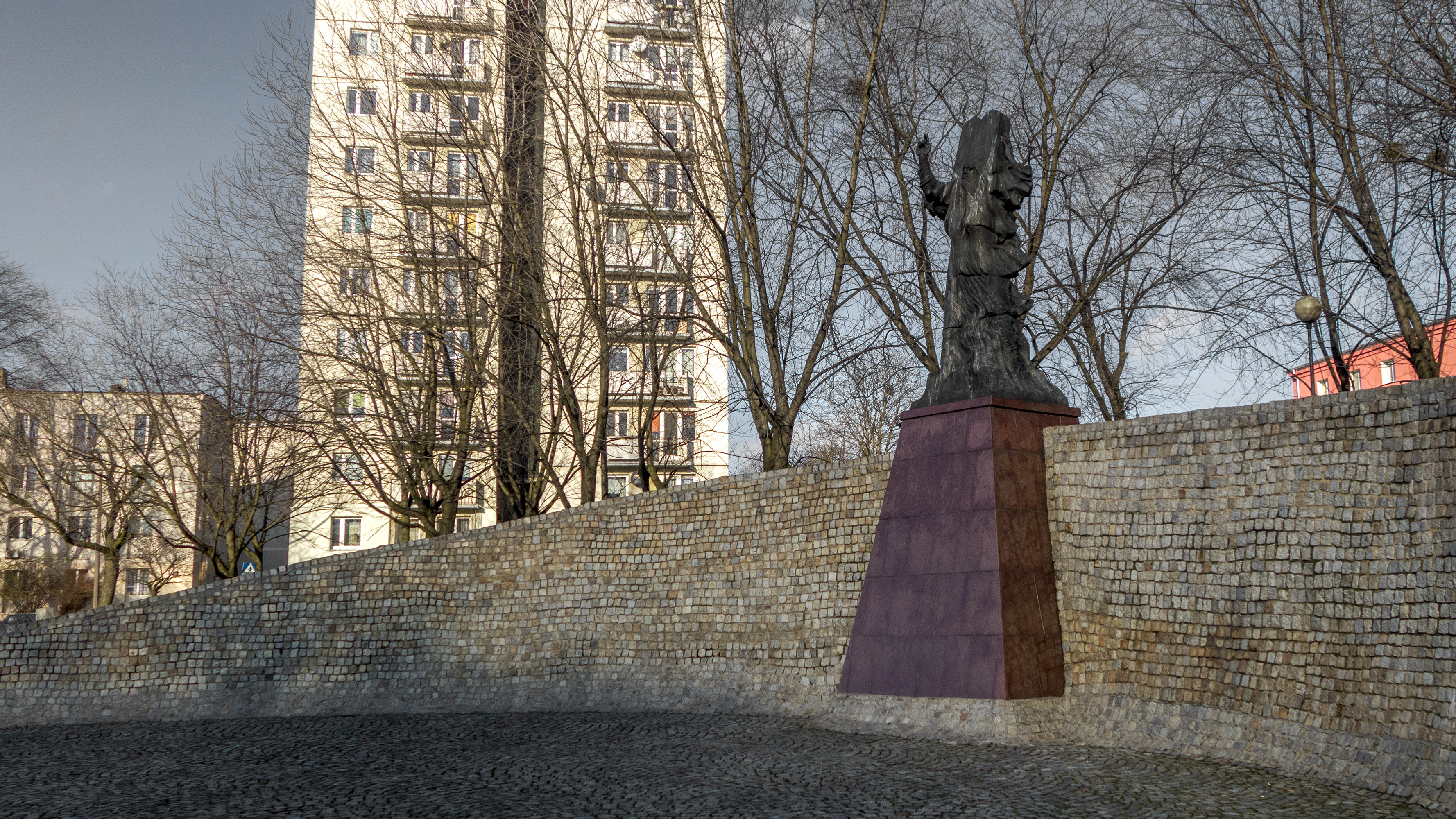 Moses monument in Lodz, Poland. Author Kazimierz Gustaw Zemła